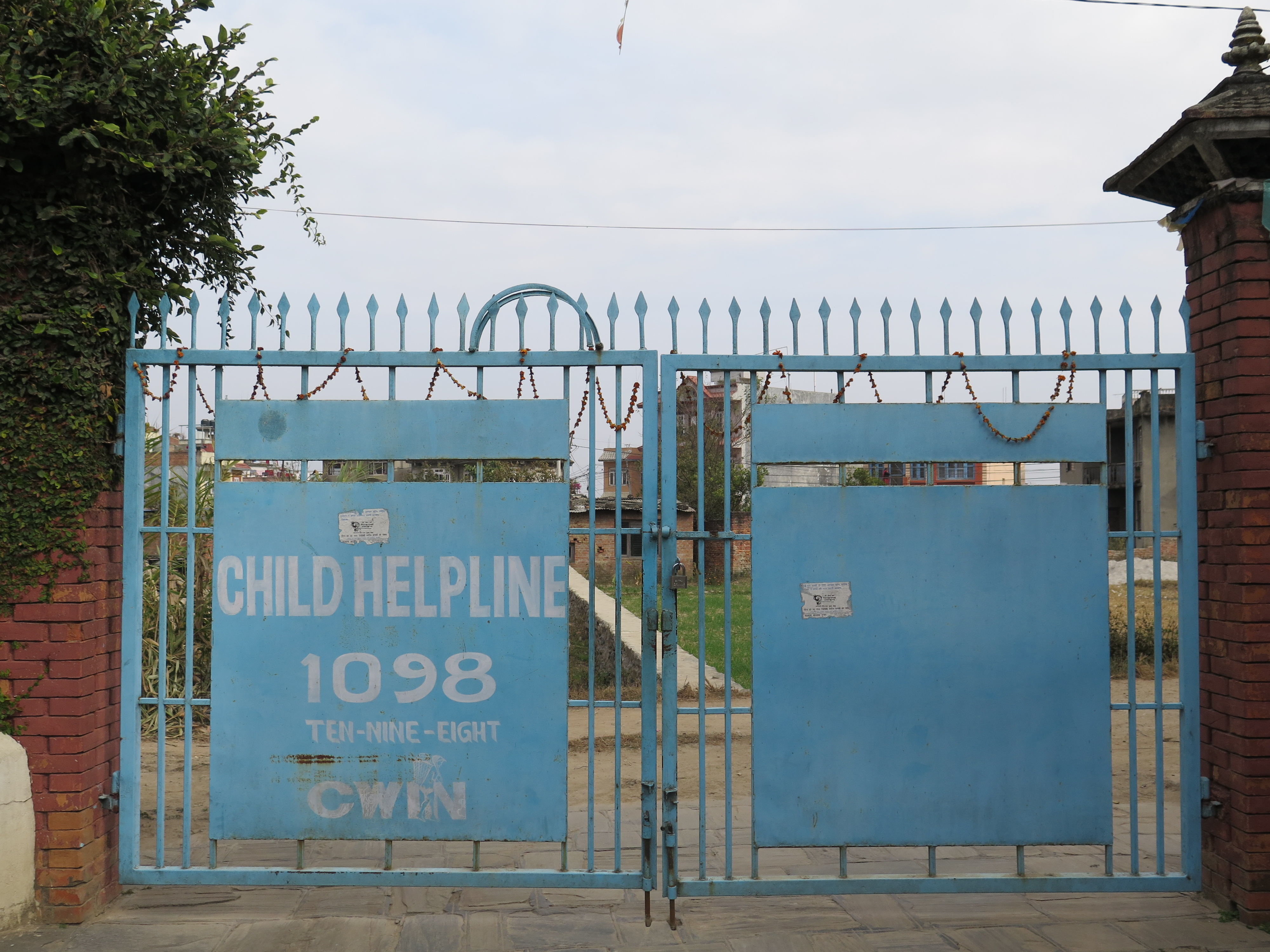 CWIN Child Help Line